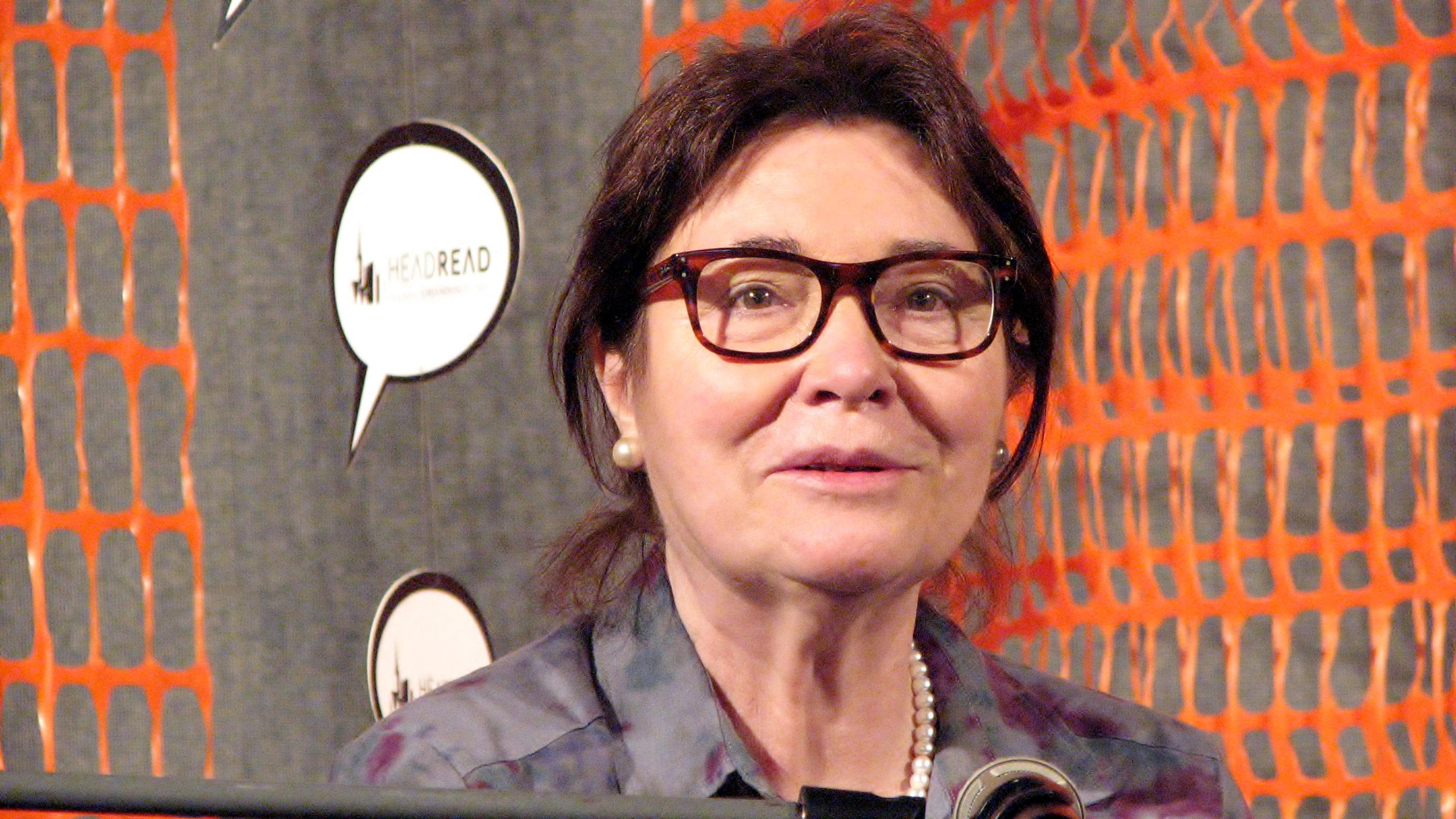 Paule Constant performing in HeadRead festival